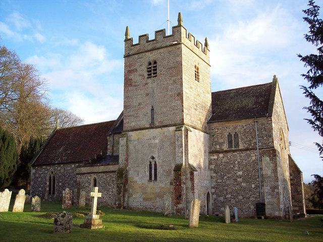 St Mary's parish church, Stapleford, Wiltshire, seen from the northwest